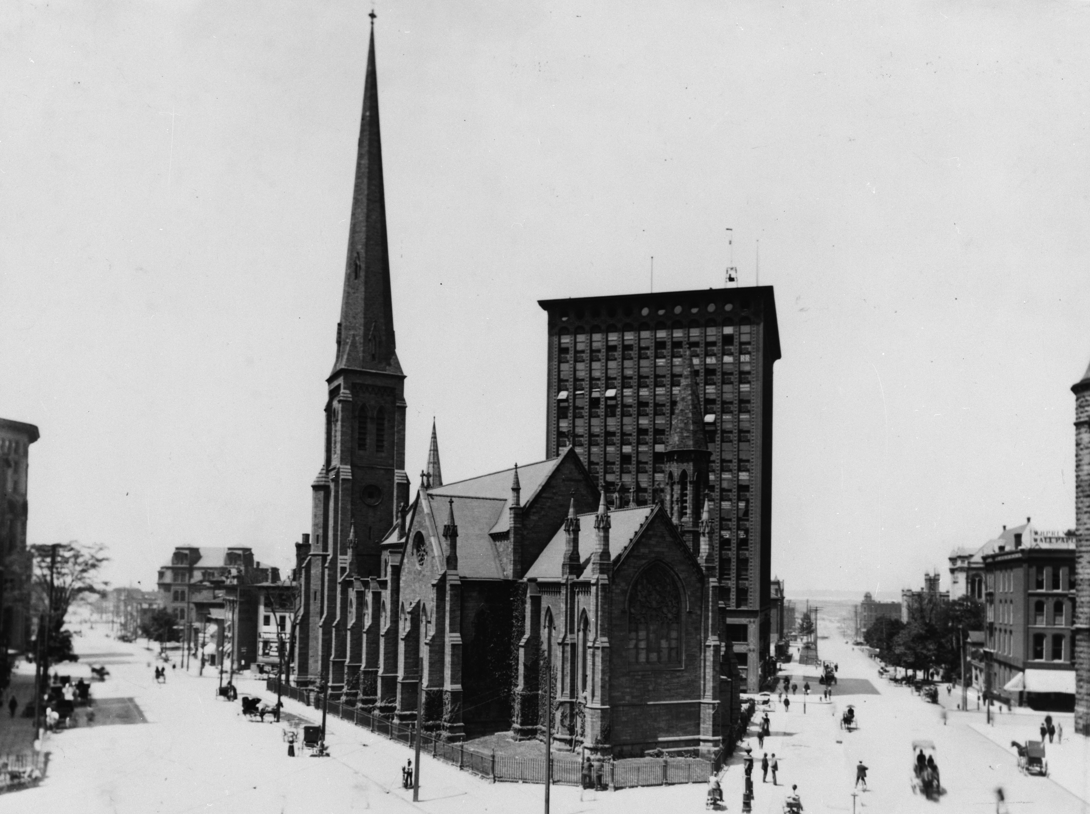 St. Paul's Episcopal Cathedral, Shelton Square, Buffalo, Erie County, New York. Photocopy of c. 1890 photograph from the collection of Buffalo and Erie County Historical Society.